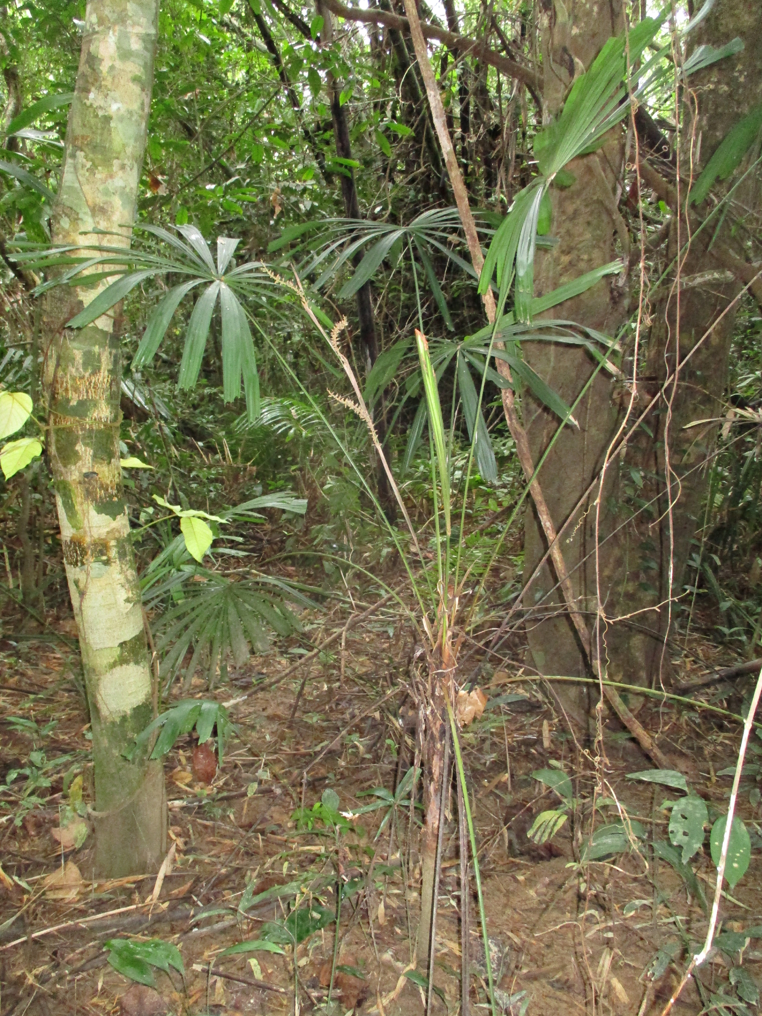 Licuala cattienensis from Cat Tien National Park by Roy Bateman